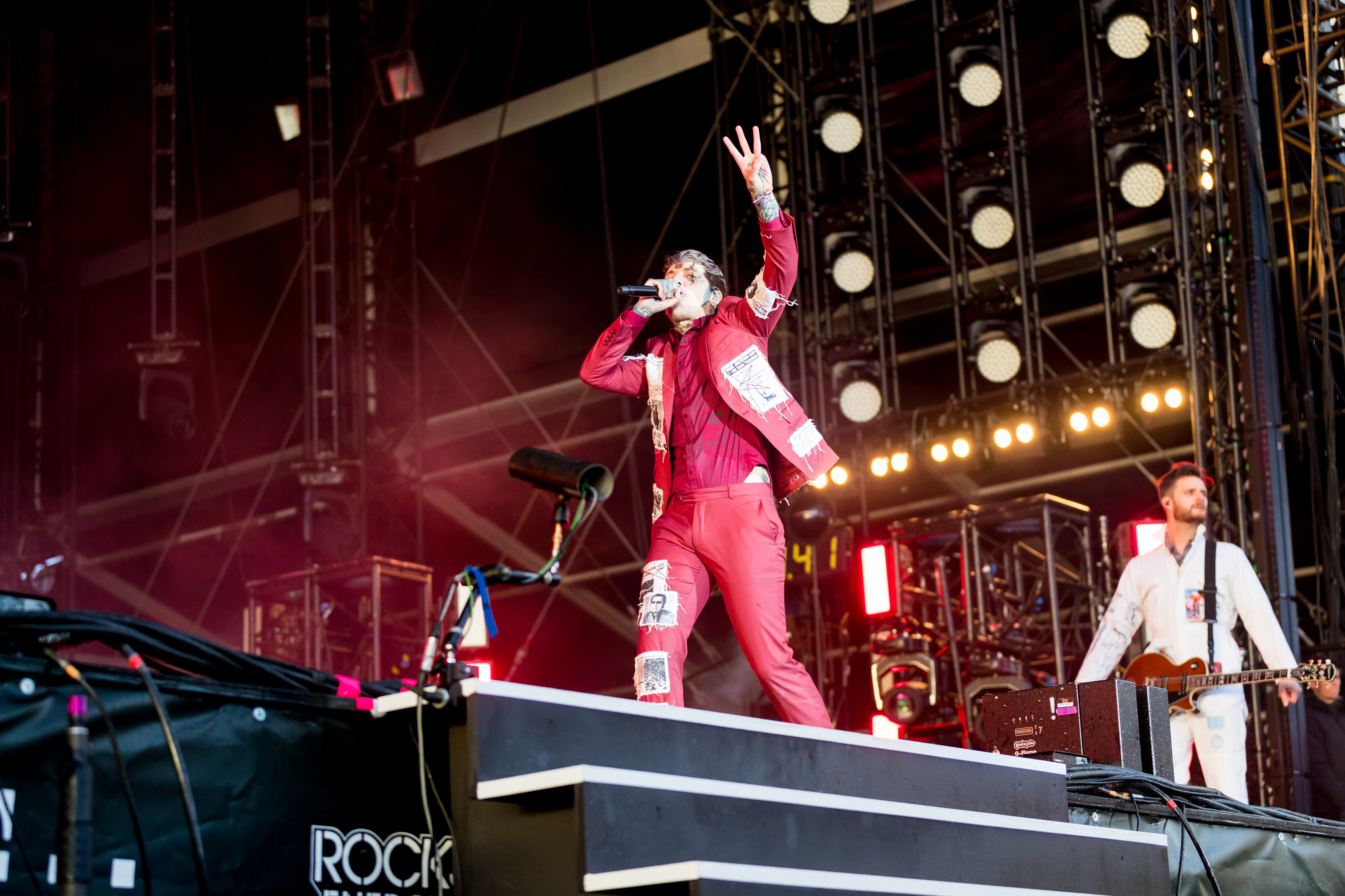 Bring me the Horizon during Rock am Ring ( at Nürburgring, Rheinland-Pfalz, Germany on 2019-06-08, Photo: Sven Mandel Promotion by Live Nation (